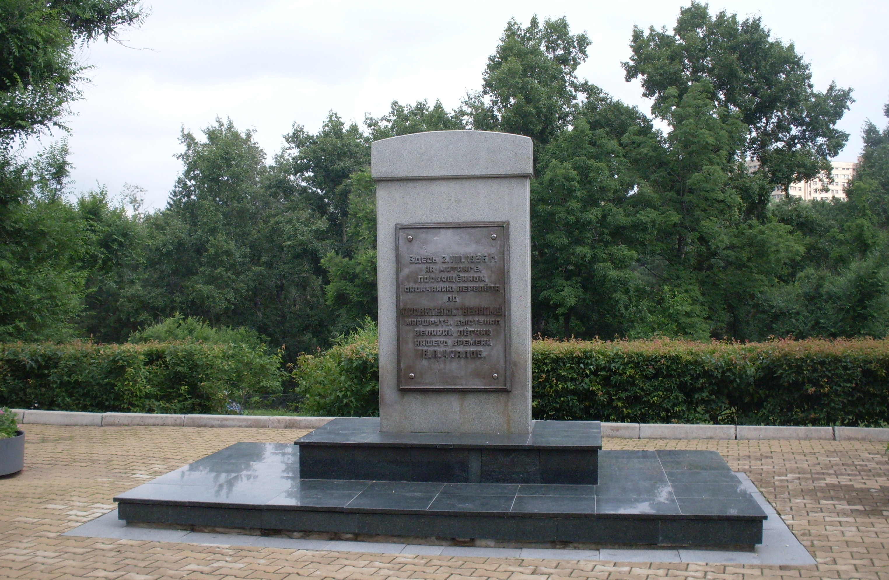 Commemorative stela pilot V.P.Tckalov in Khabarovsk